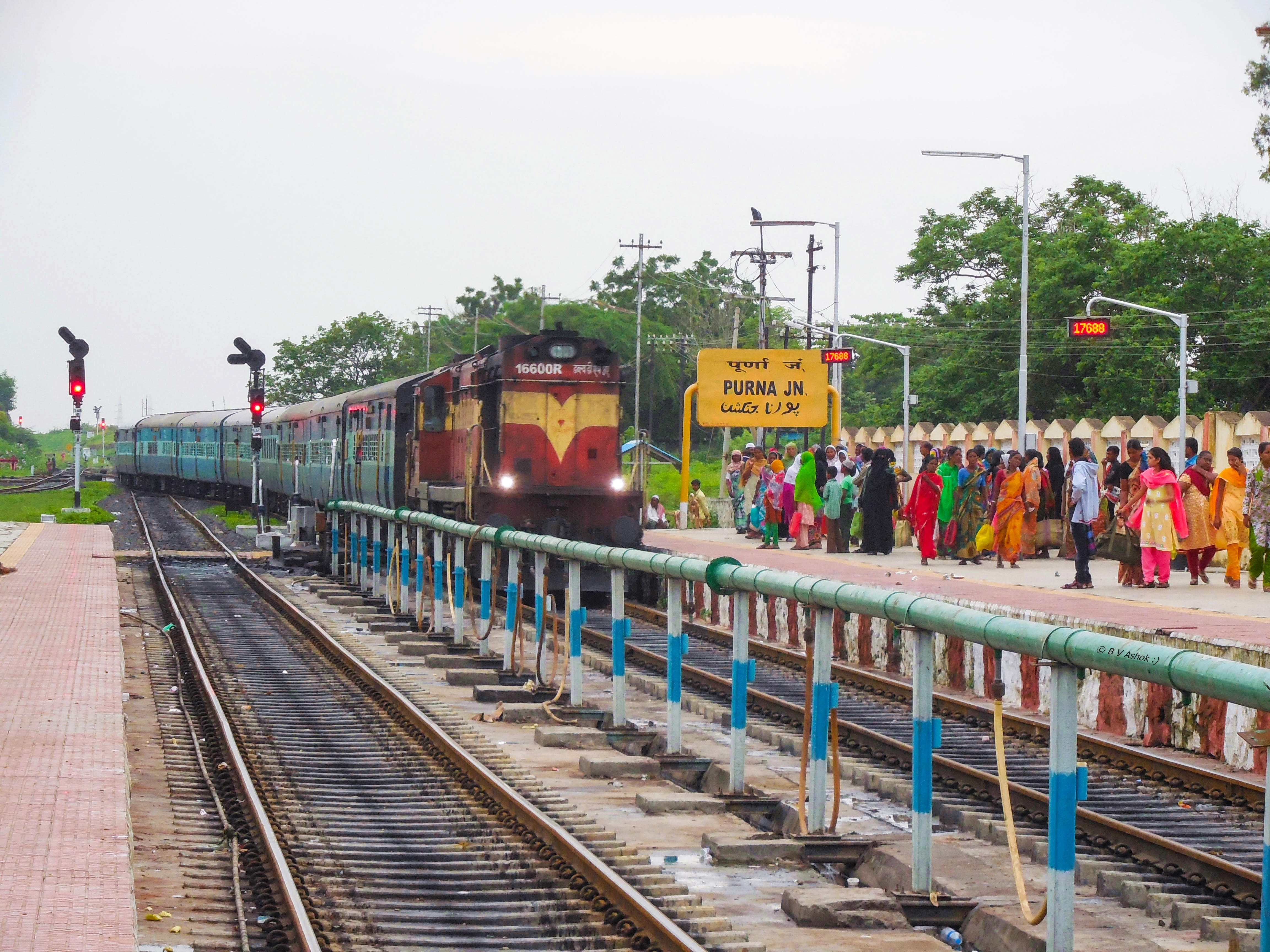 GTL WDM-3A 16600R entering platform 1 of Purna junction for its scheduled halt with 17688 Dharmabad - Manmad Marathwada Express...